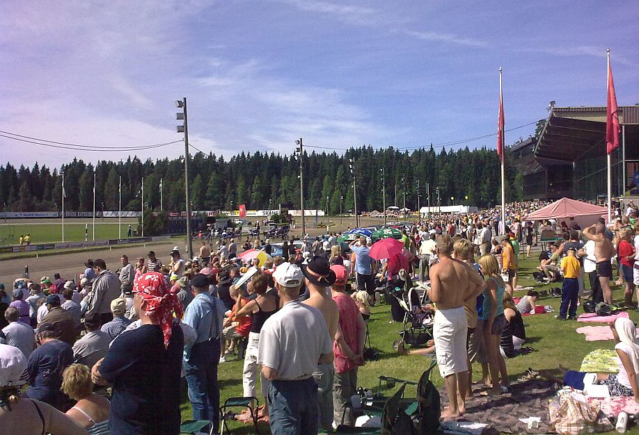 Audience following the St. Michel race in July 2009, the Mikkeli race course, Eastern Finland. Due to the relatively round track profile, Mikkeli race course is among the fastest 1000 m long race tracks. Therefore, several World records have been achieved here even though the price money is not high. Please remember mention the author if you use the photo.